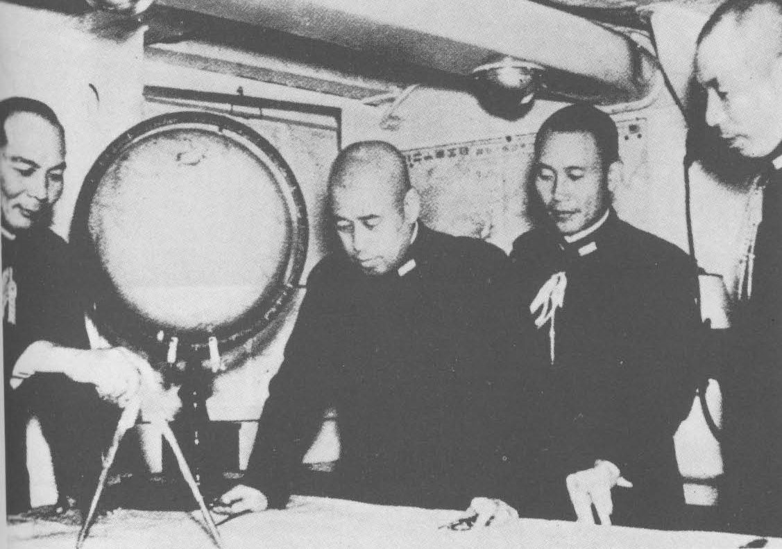 Imperial Japanese Navy Admiral Isoroku Yamamoto (center, bending over table) with (from left) Chief of Staff Matome Ugaki, liaison staff officer Shigero Fujii, and administrative officer Yasuji Watanabe. Photographed on battleship Nagato sometime in 1940.